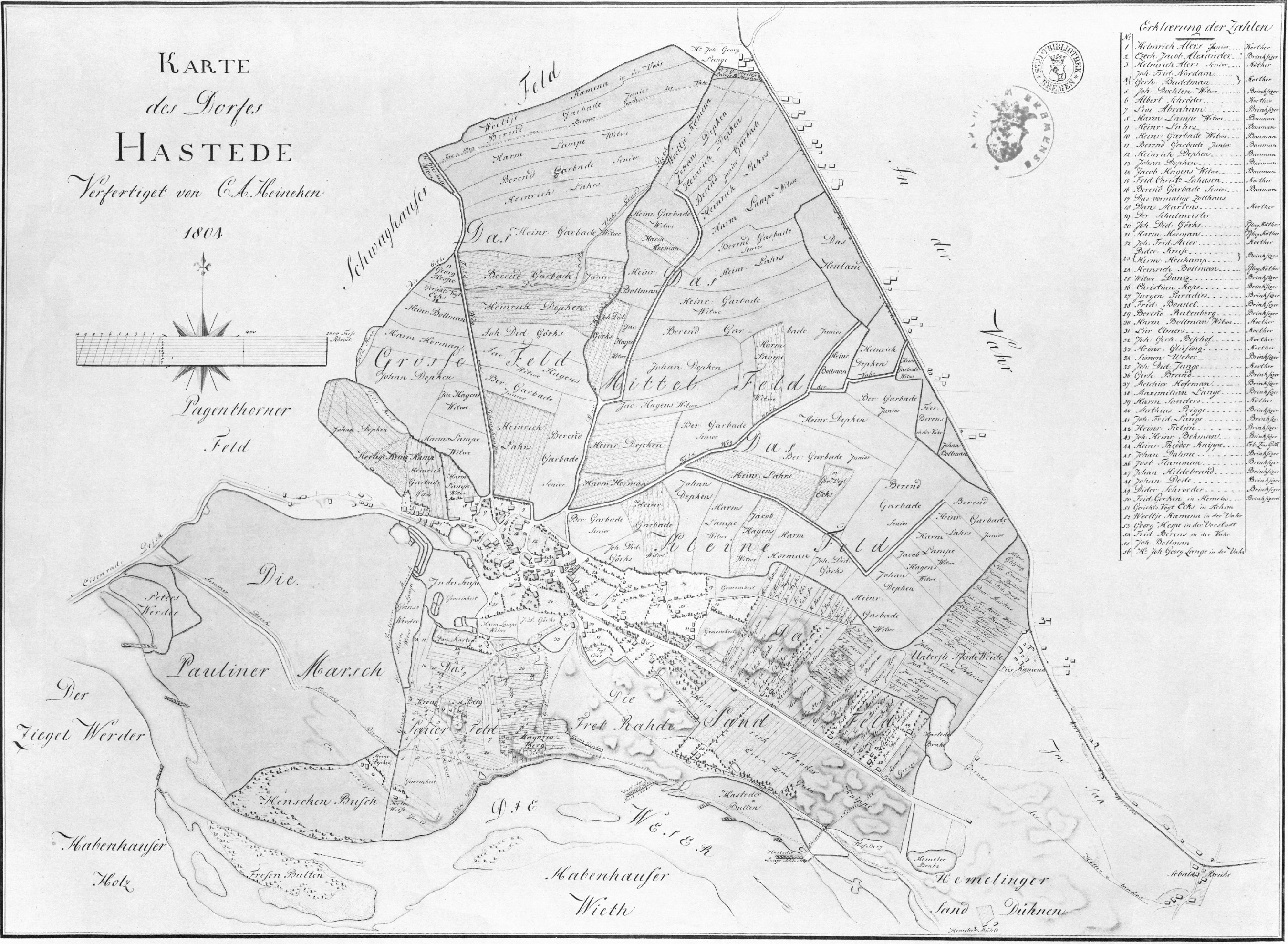 Original title: Map of the village of Hastede, outlined by C. A. Heineken 1804